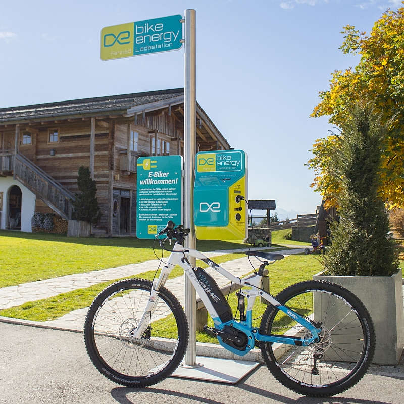 "bike-energy" charging station without bicycle rack